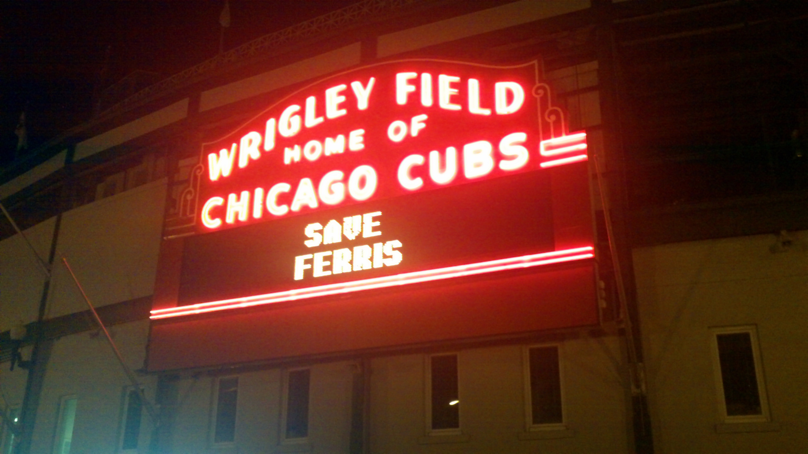 Seems theCubs wanted as many people as possible to help "Save Ferris" on October 1.